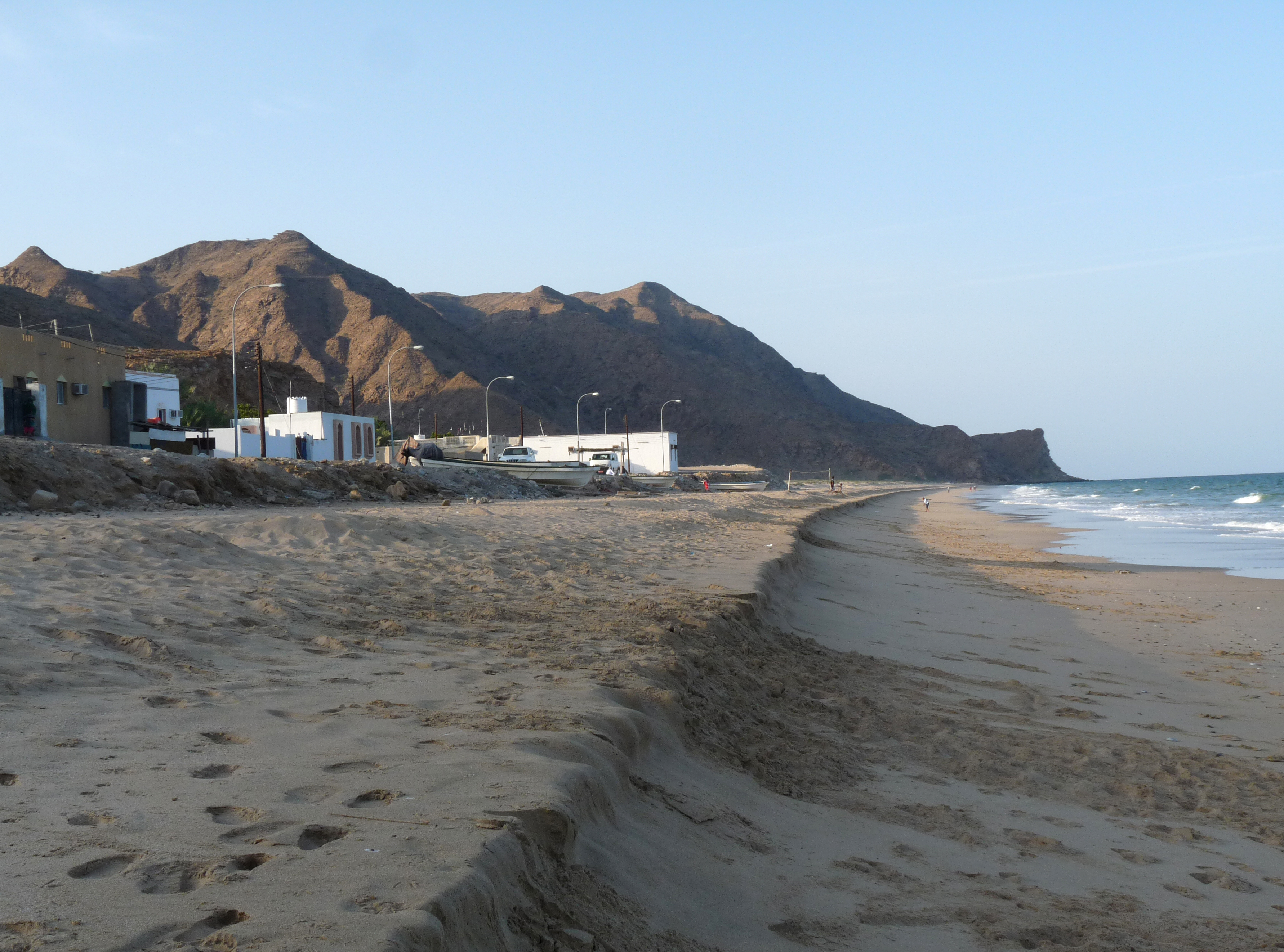 Sifah (Oman)